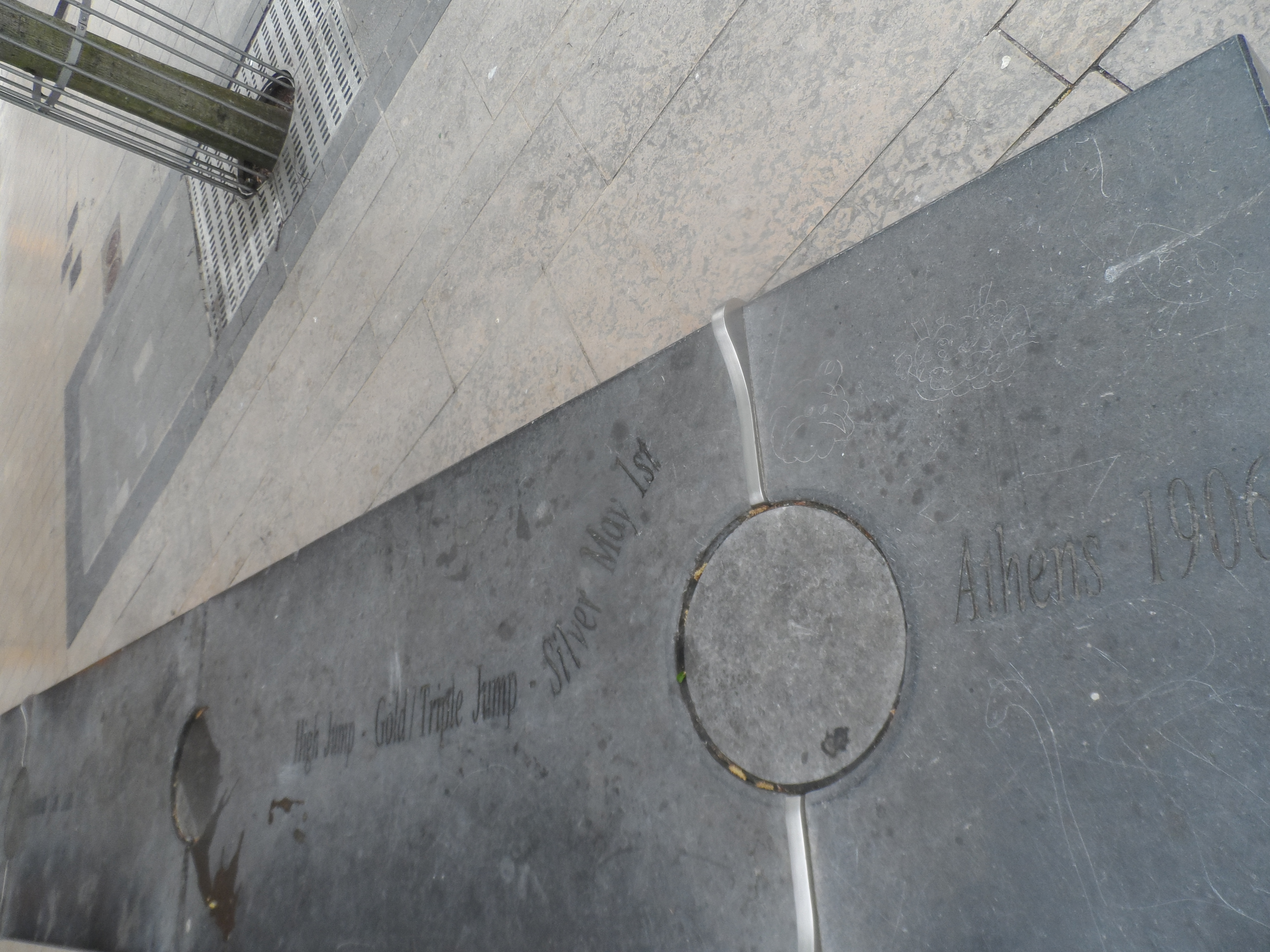 Con Leahy bench